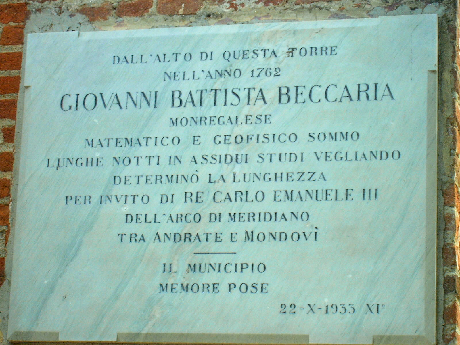 plaque celebrating Giovanni Battista Beccaria, on the Tower in Mondovì, Italy